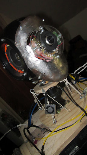 The photo shows Salvius the robot's head with the 8 ohm speaker mounted on the right side.